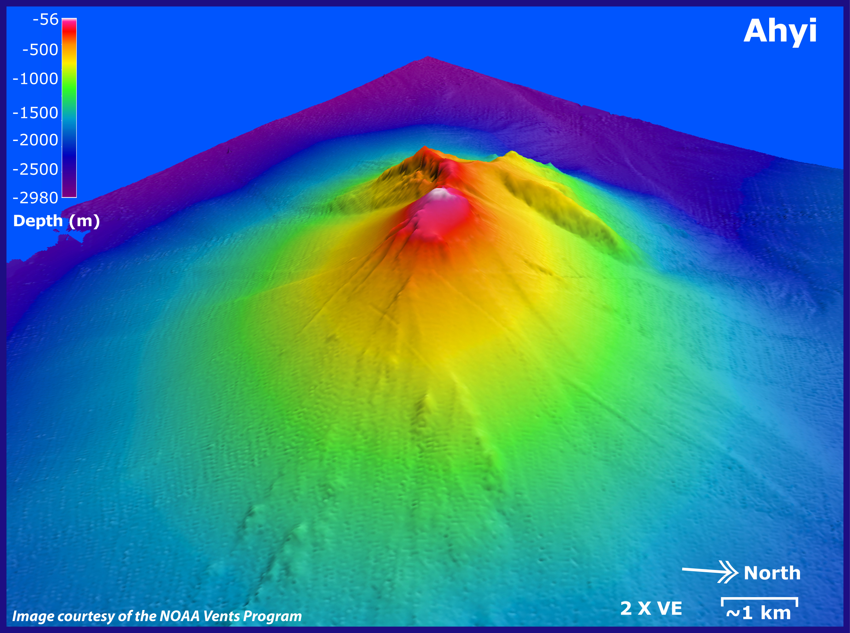 Ahyi submarine volcano, looking toward the southwest. Depths in this image range from 56 to 2980 meters (184 to 9775 feet). Image is two times vertically exaggerated. EM300 bathymetry data resolution is ~25 meters. Distance indicated is kilometers in foreground.